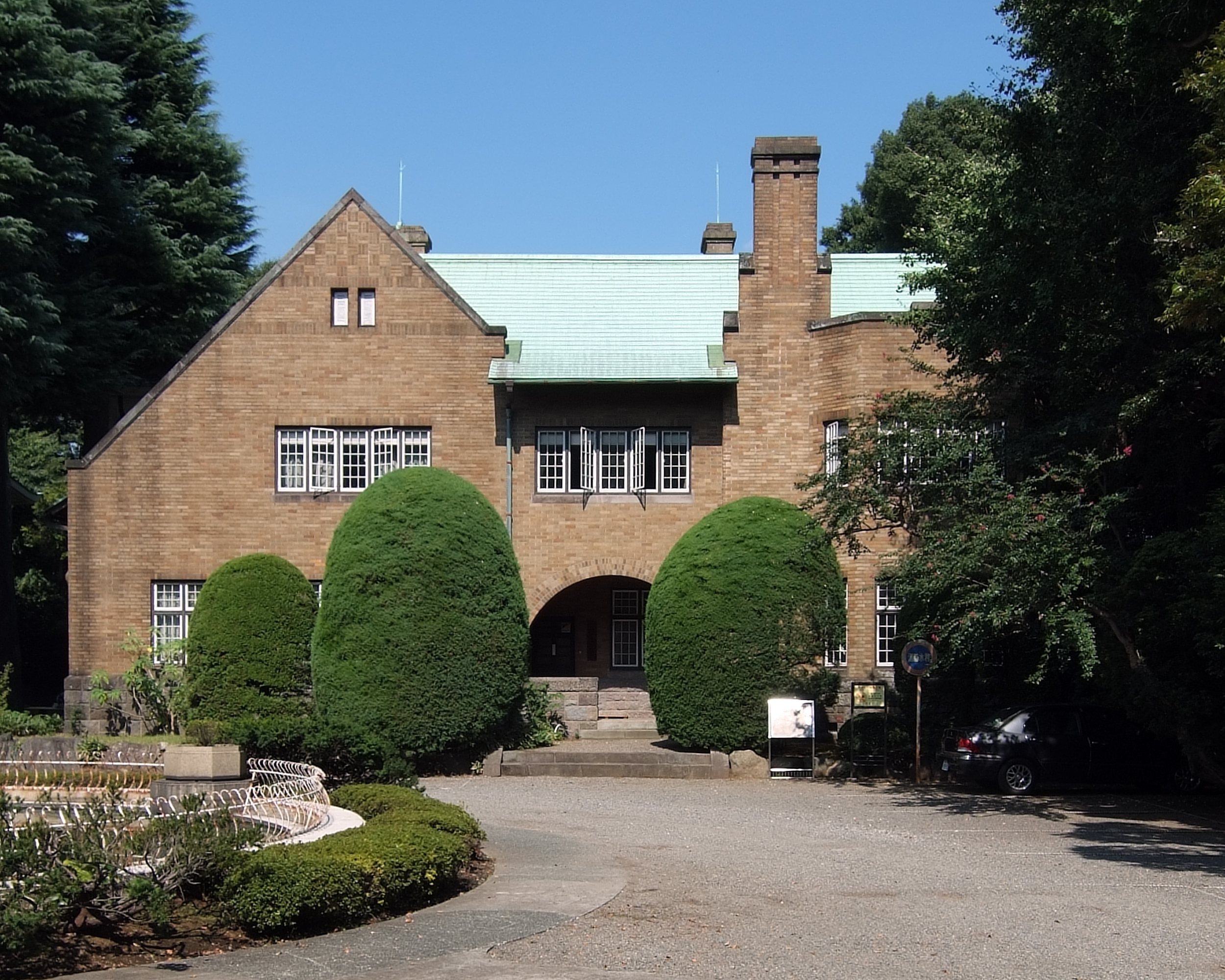 Seikado Bunko, at setagaya-ku Tokyo Japan, design by Kotaro Sakurai in 1924